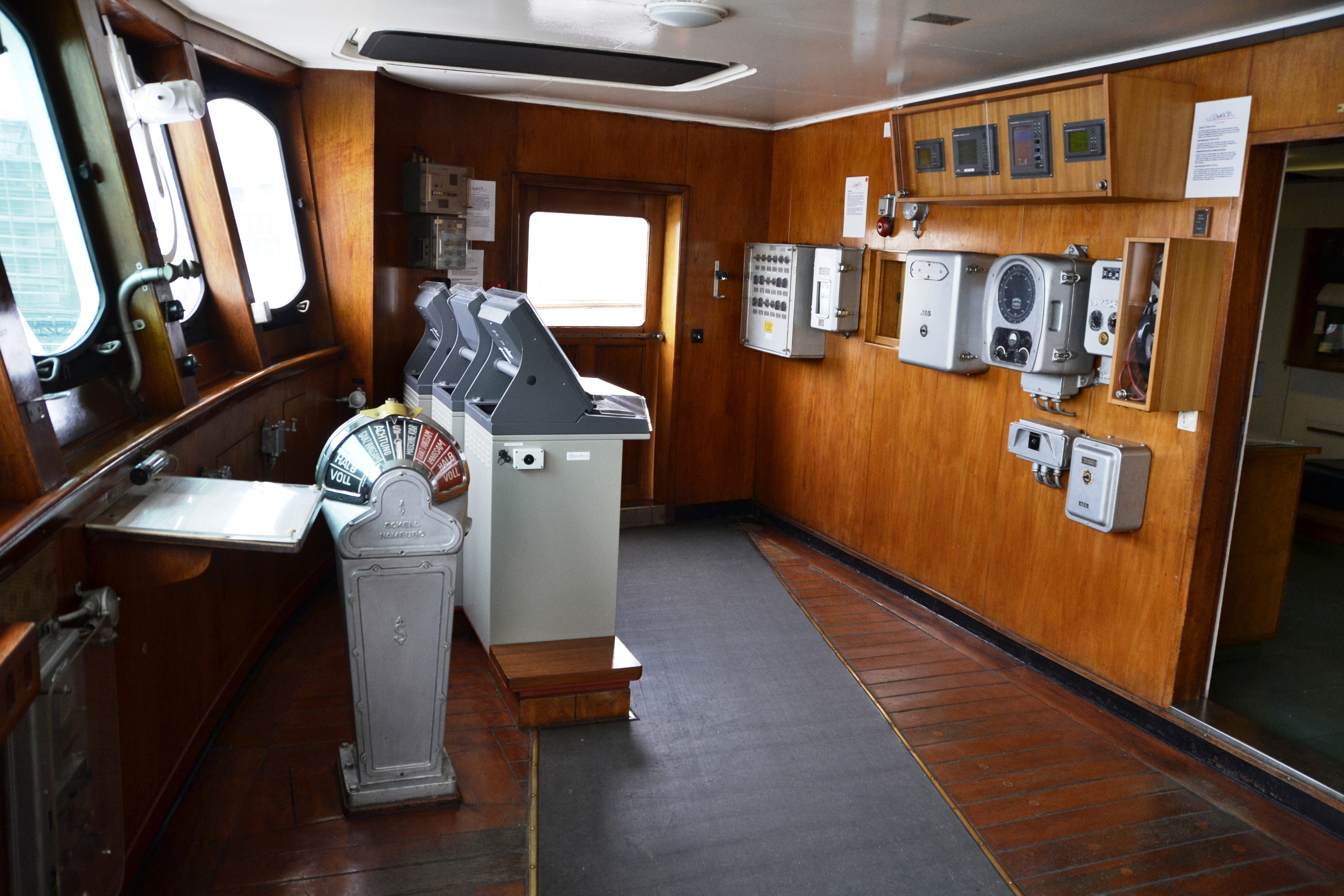 Interior of the Cap San Diego.